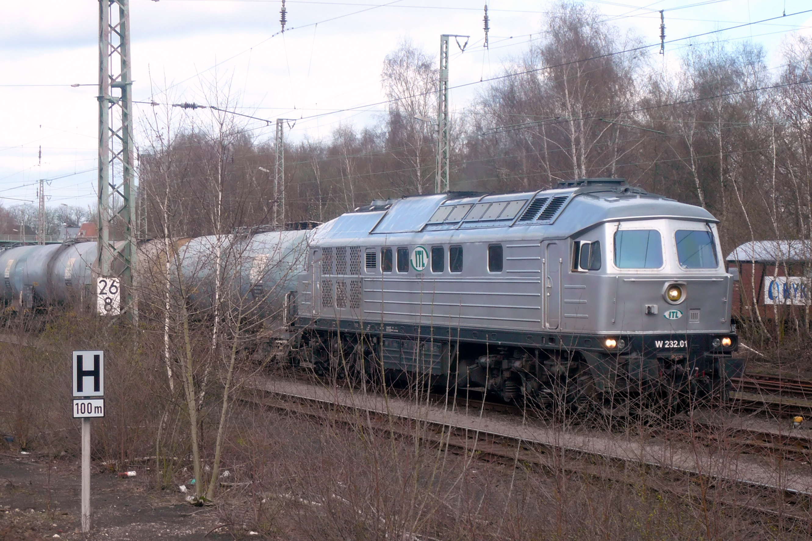 ex DR 142 003-3 as ITL W 232.01 in Wesel